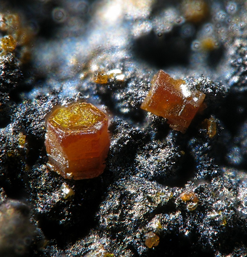 Greenockite Locality: Tsumeb Mine (Tsumcorp Mine), Tsumeb, Otjikoto (Oshikoto) Region, Namibia (Locality at ) Picture width 1 mm. Collection and photograph Christian Rewitzer